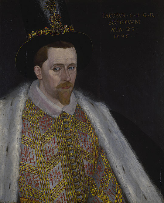 Portrait of James VI of Scotland, I of England and Ireland